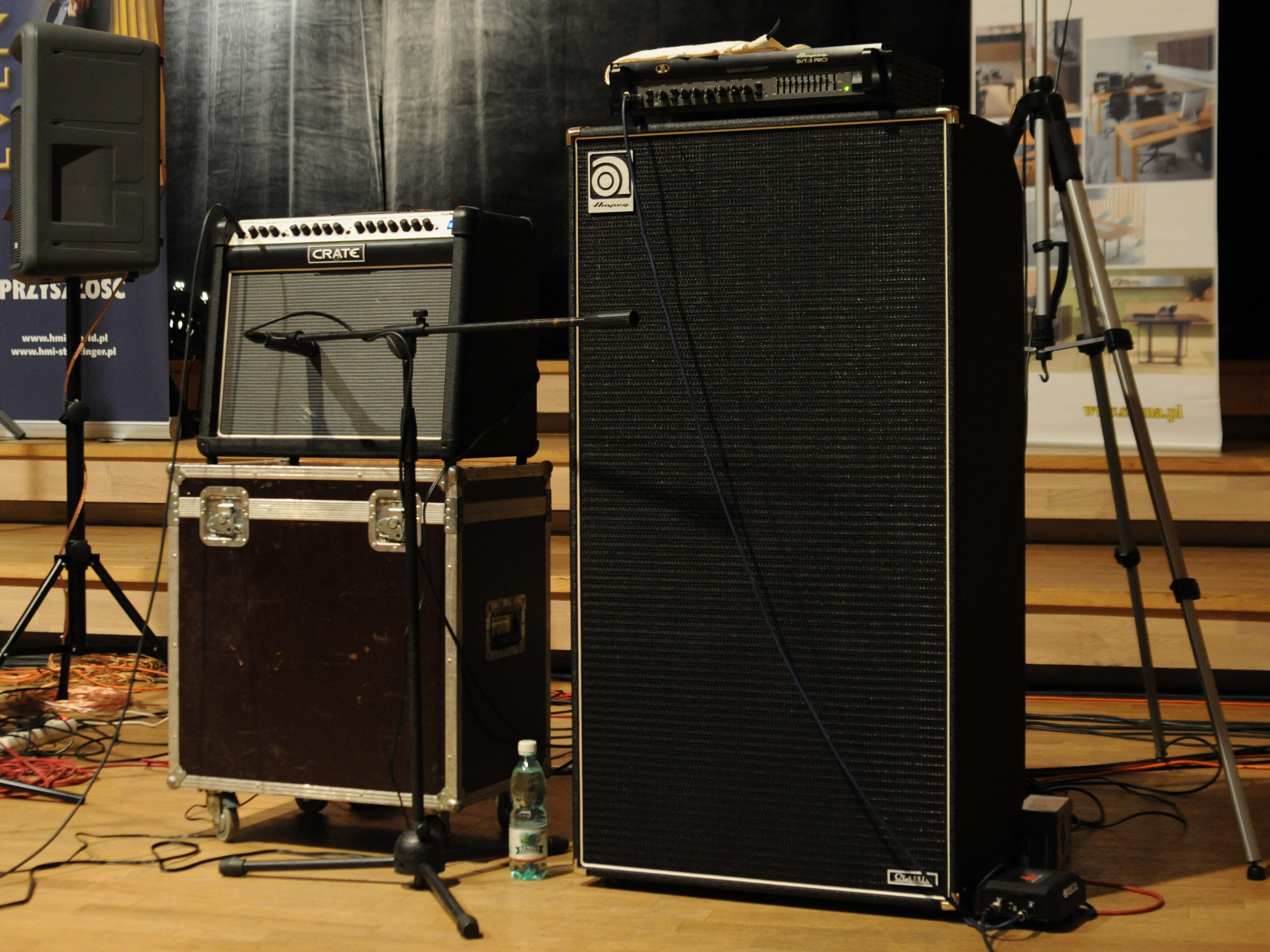 Tony Levin's Stick rig Crate FlexWave65 (FW65) combo amp (1x12", 65 W RMS) Ampeg SVT bass amp set dbx Pro db12 Active Direct Box Ampeg SVT-3 Pro (450 W RMS @ 4Ω head) Ampeg Classic SVT-610HLF? (6x10" cab)